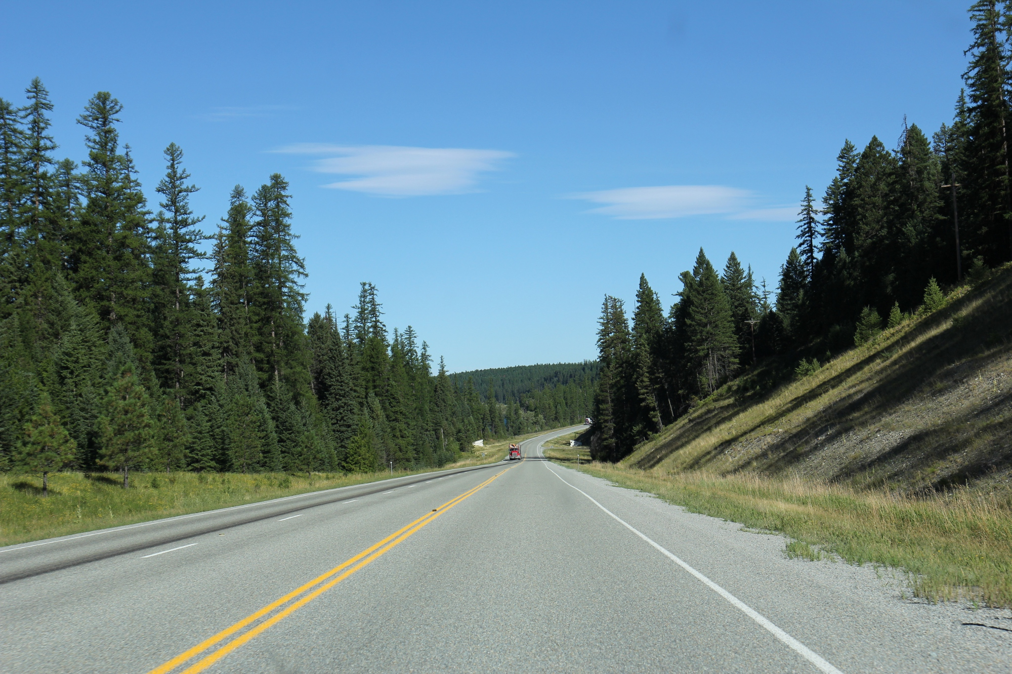 U.S. Route 93 traveling through the Kootenai National Forest.